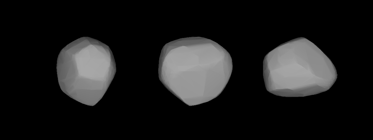 A three-dimensional model of 281 Lucretia that was computed using light curve inversion techniques.